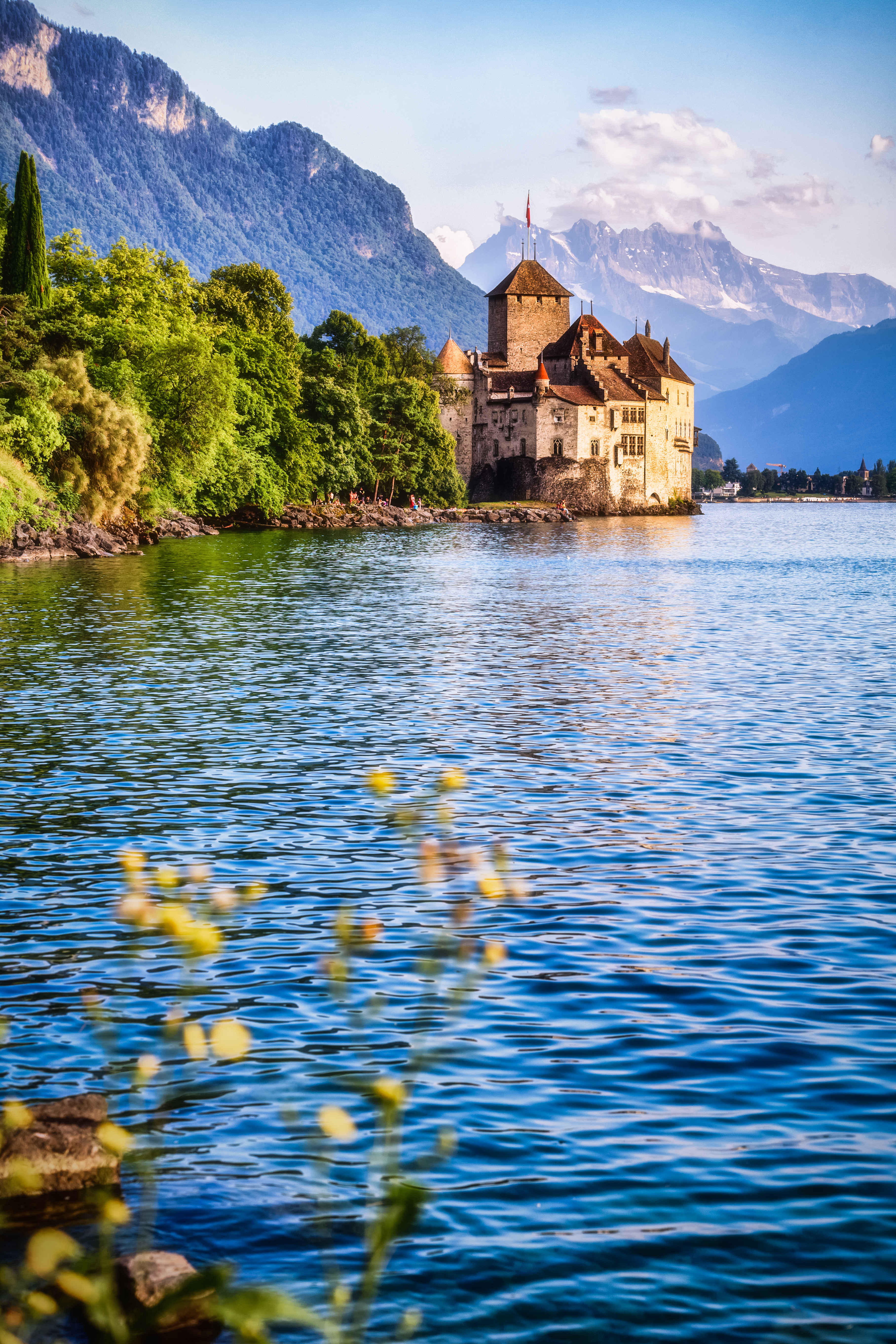 Chillon Castle